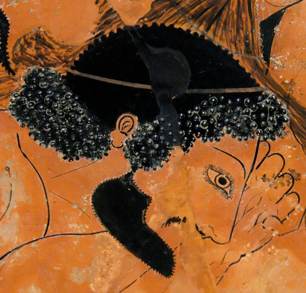 Heracles's face, detail of a scene representing Heracles wrestling with the libyan giant Antaeus. Main side of a red-figured calyx krater, 515–510 BC.